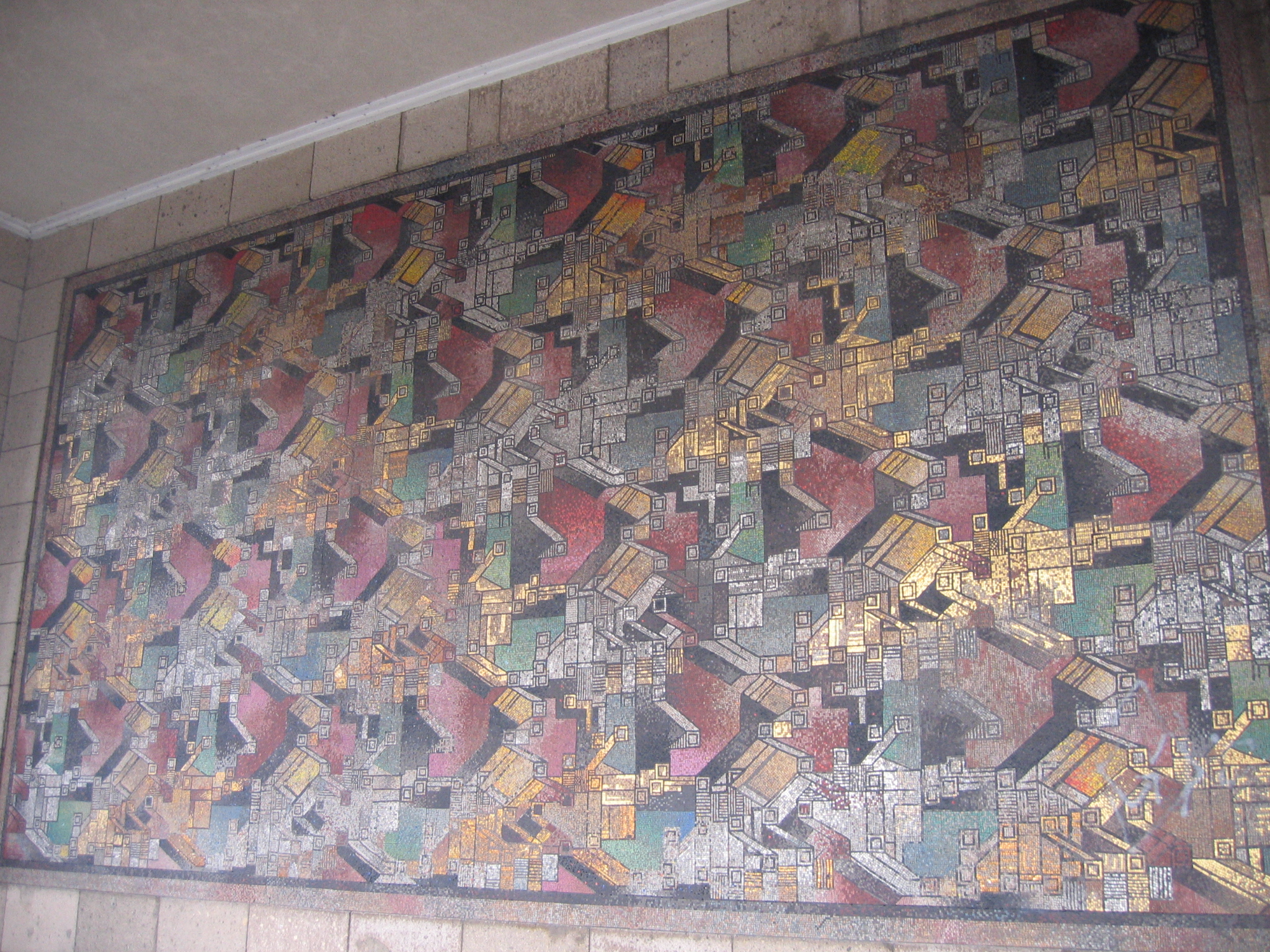 The building of the museum kunst palast in Düsseldorf, Germany